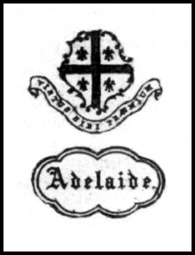 The family coat of arms of Adelaide Lucy Fenton (1825-1897) bearing the latin moto Virtus Sibi Praemium